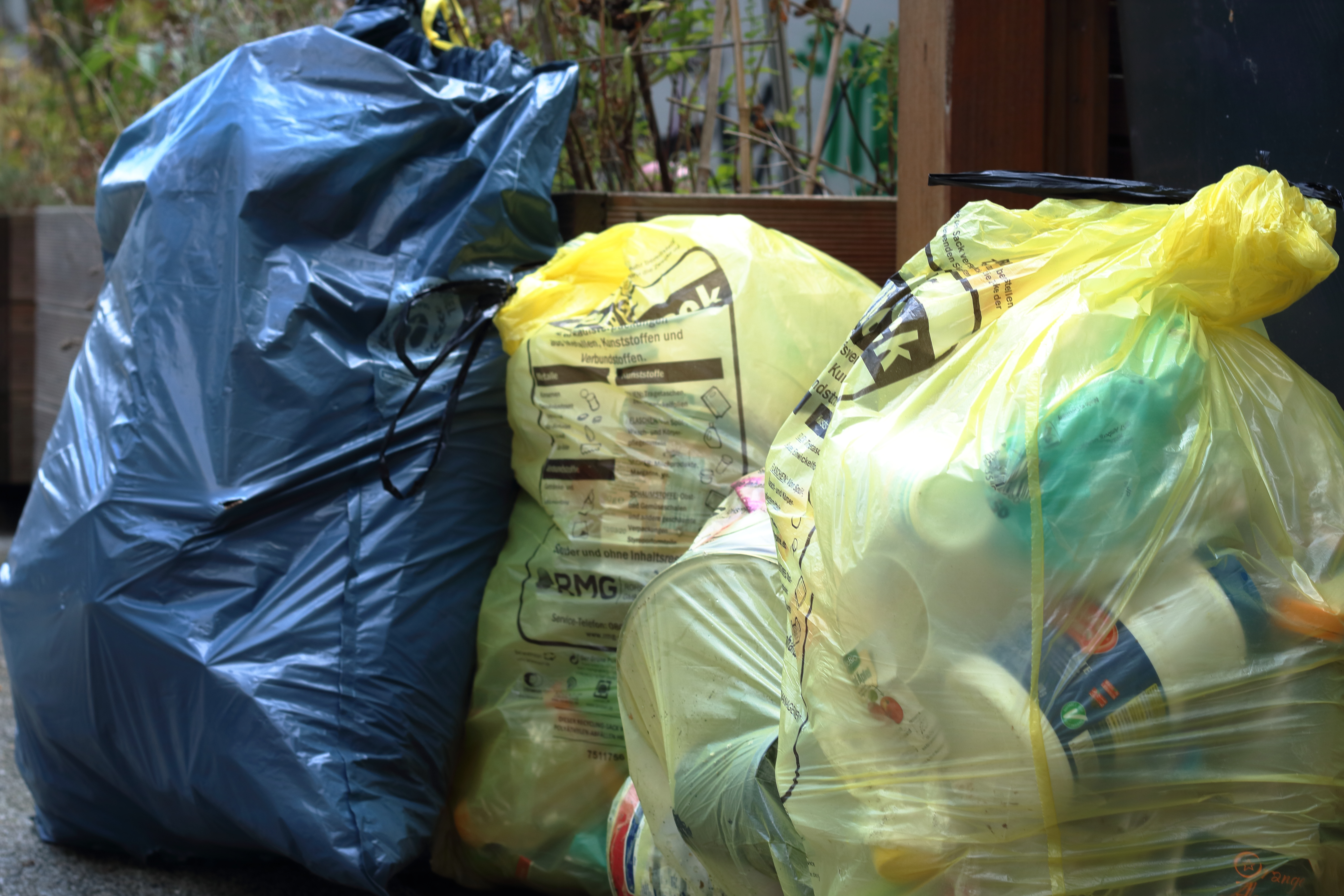 Duales System - German Trash